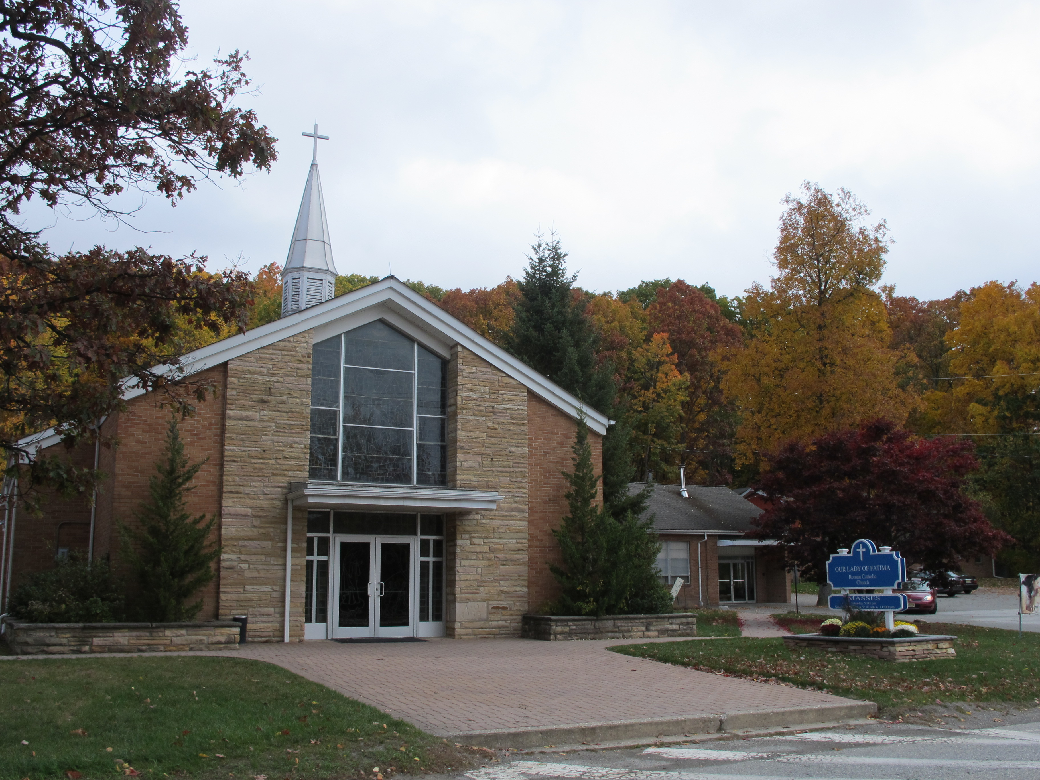 The catholic church "Our Lady of Fatima in Vernon, NJ